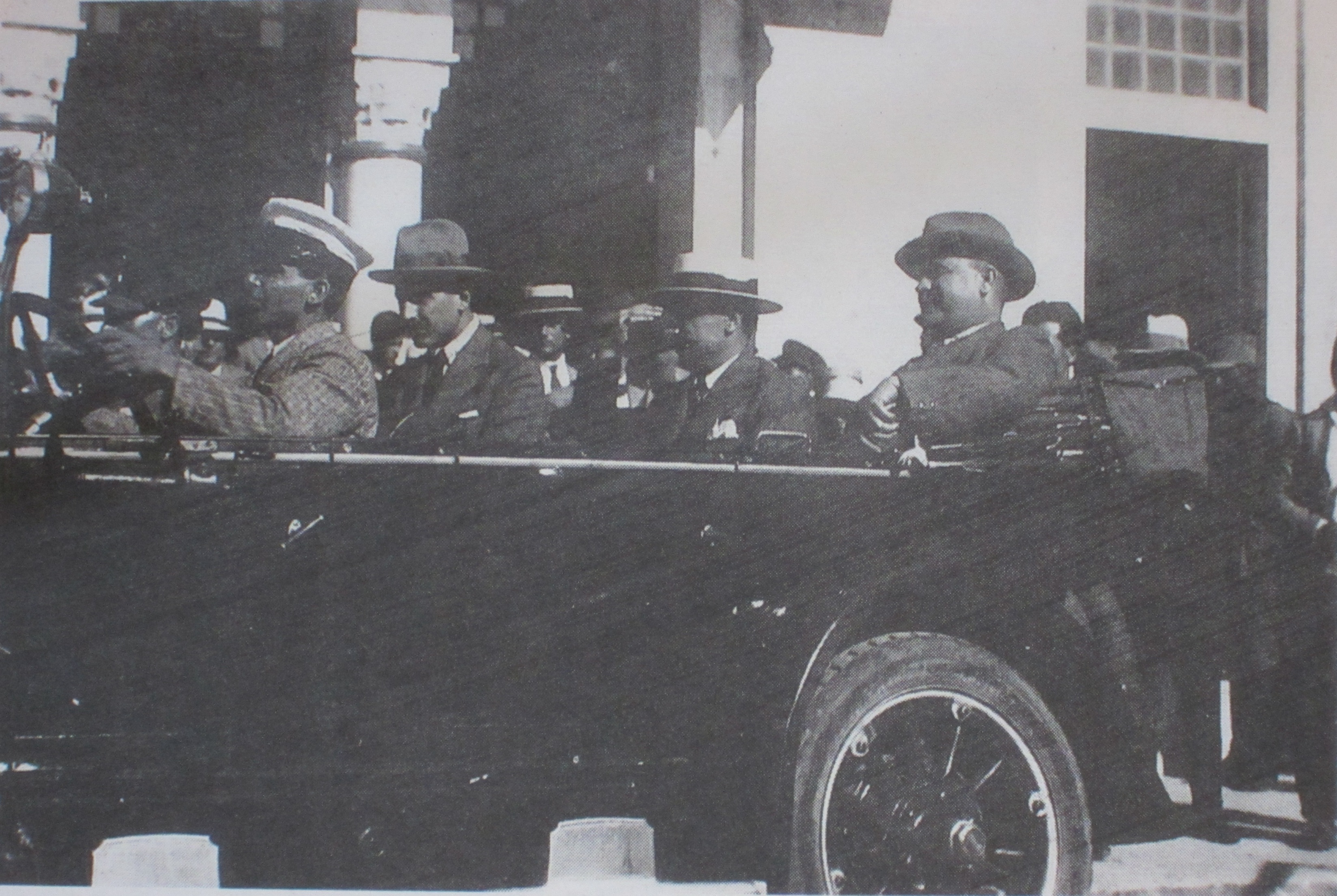 Three Alis of the Independence Tribunal